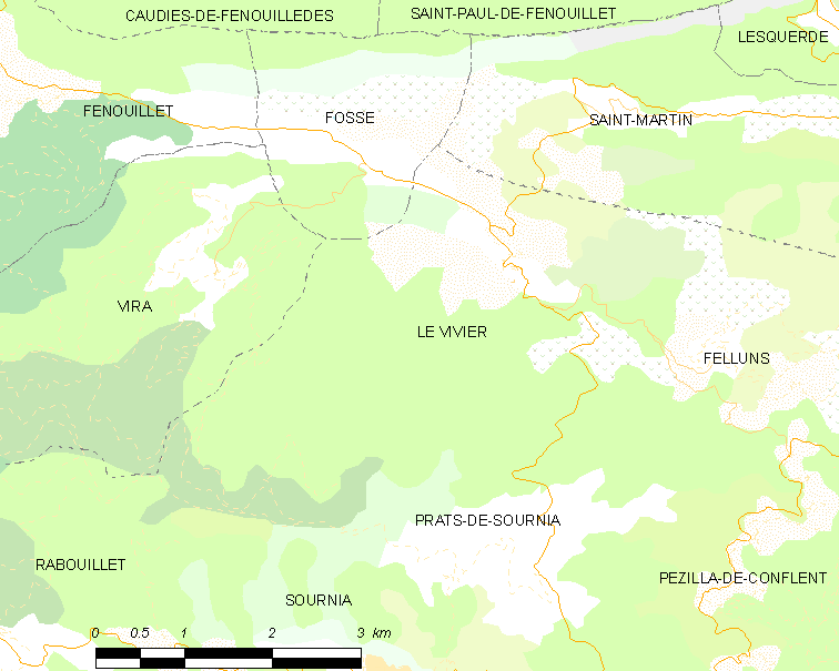 Map of French municipality